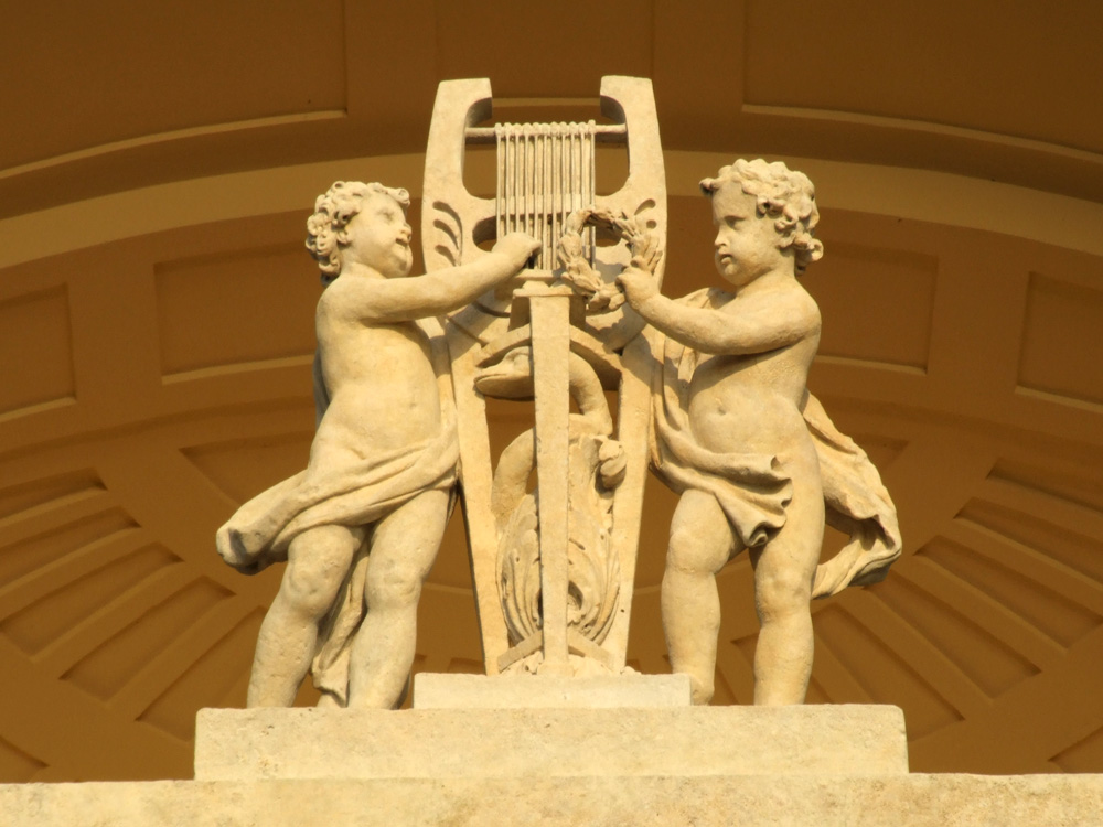 Apollonuv chram, Valtice, Czech Republic